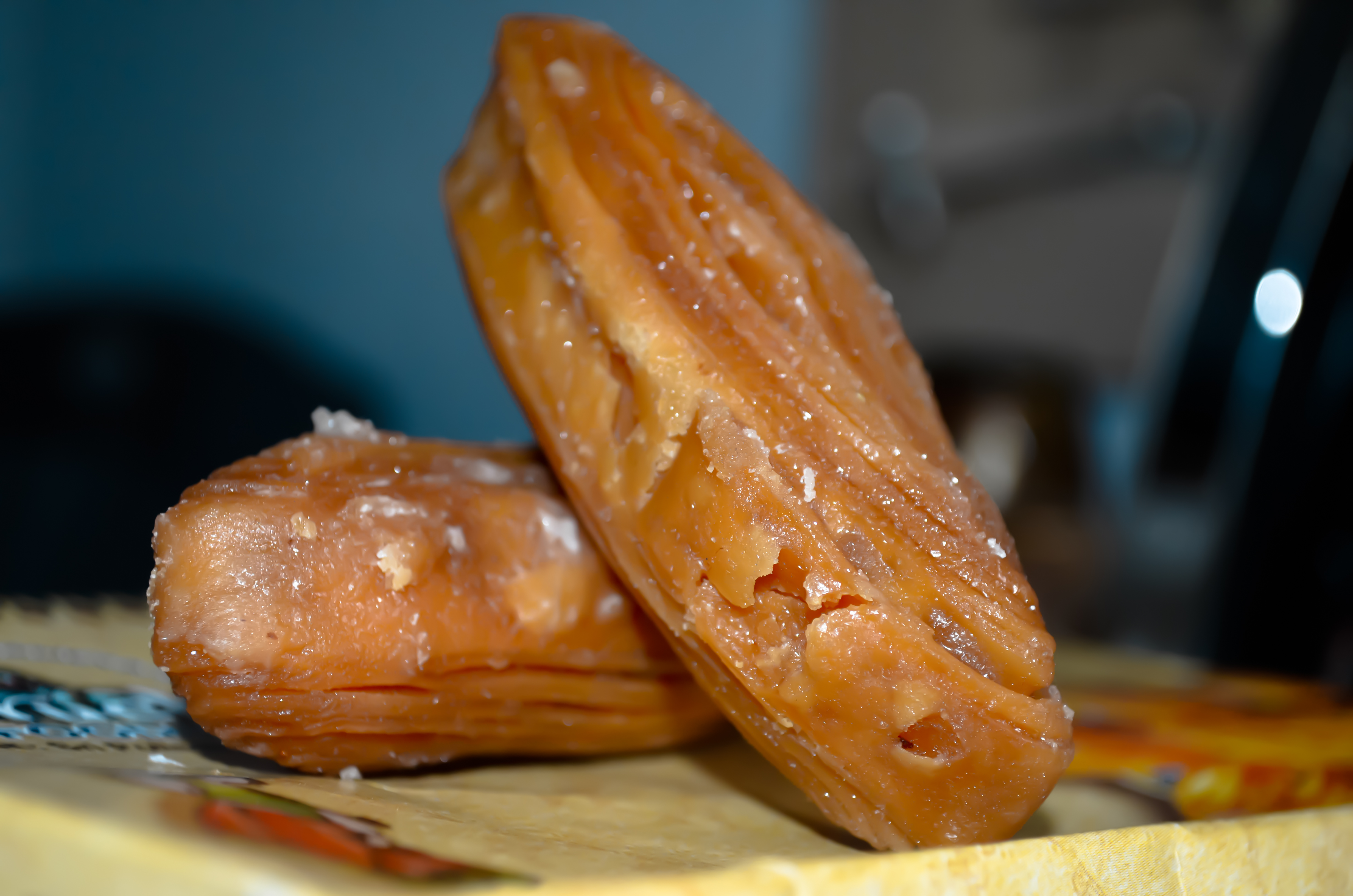 Delicious sweet from Kakinada, Andhra Pradesh